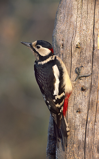 A Great Spotted Woodpecker climbing a tree trunk.